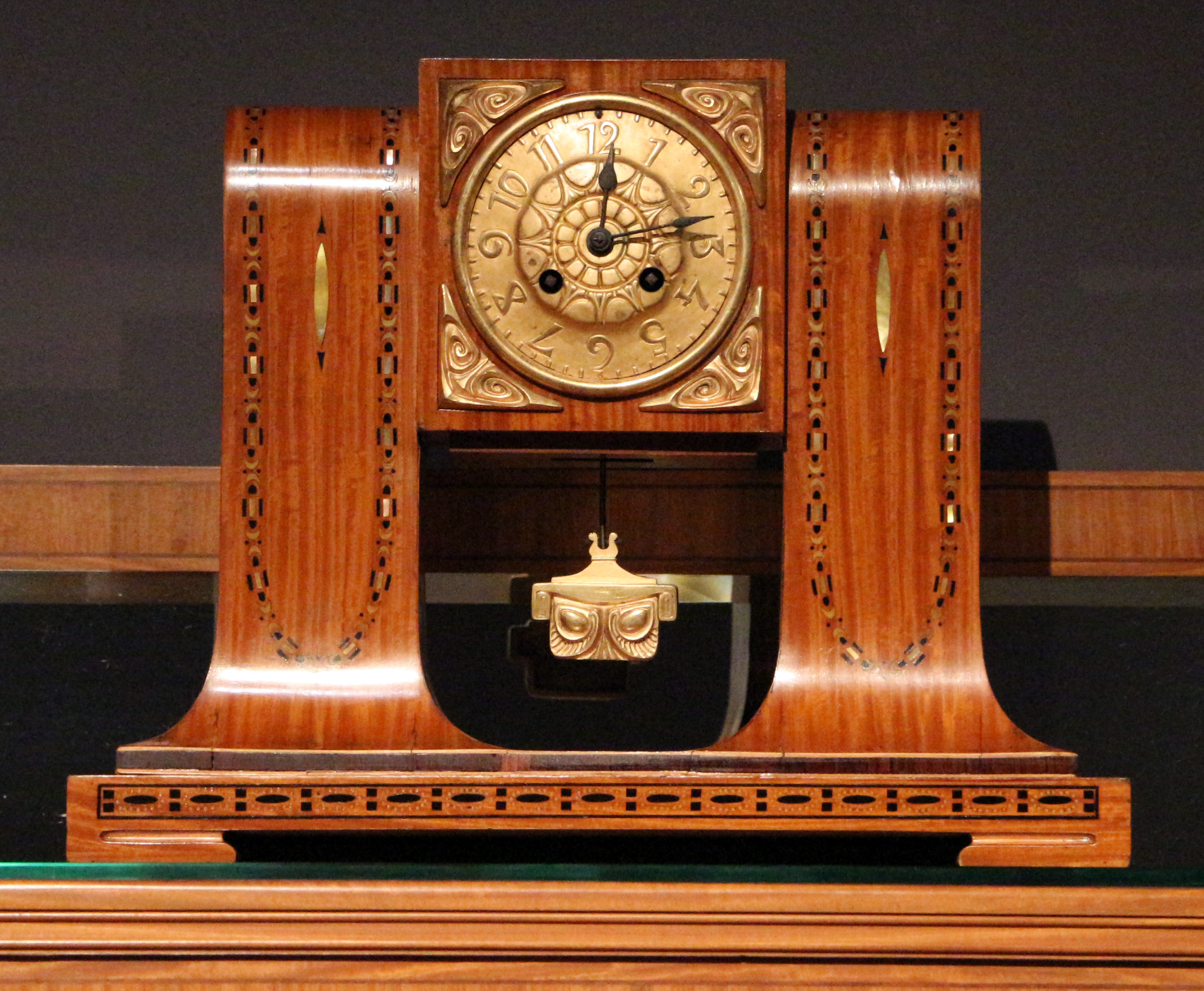 Decorative arts in the Musée d'Orsay